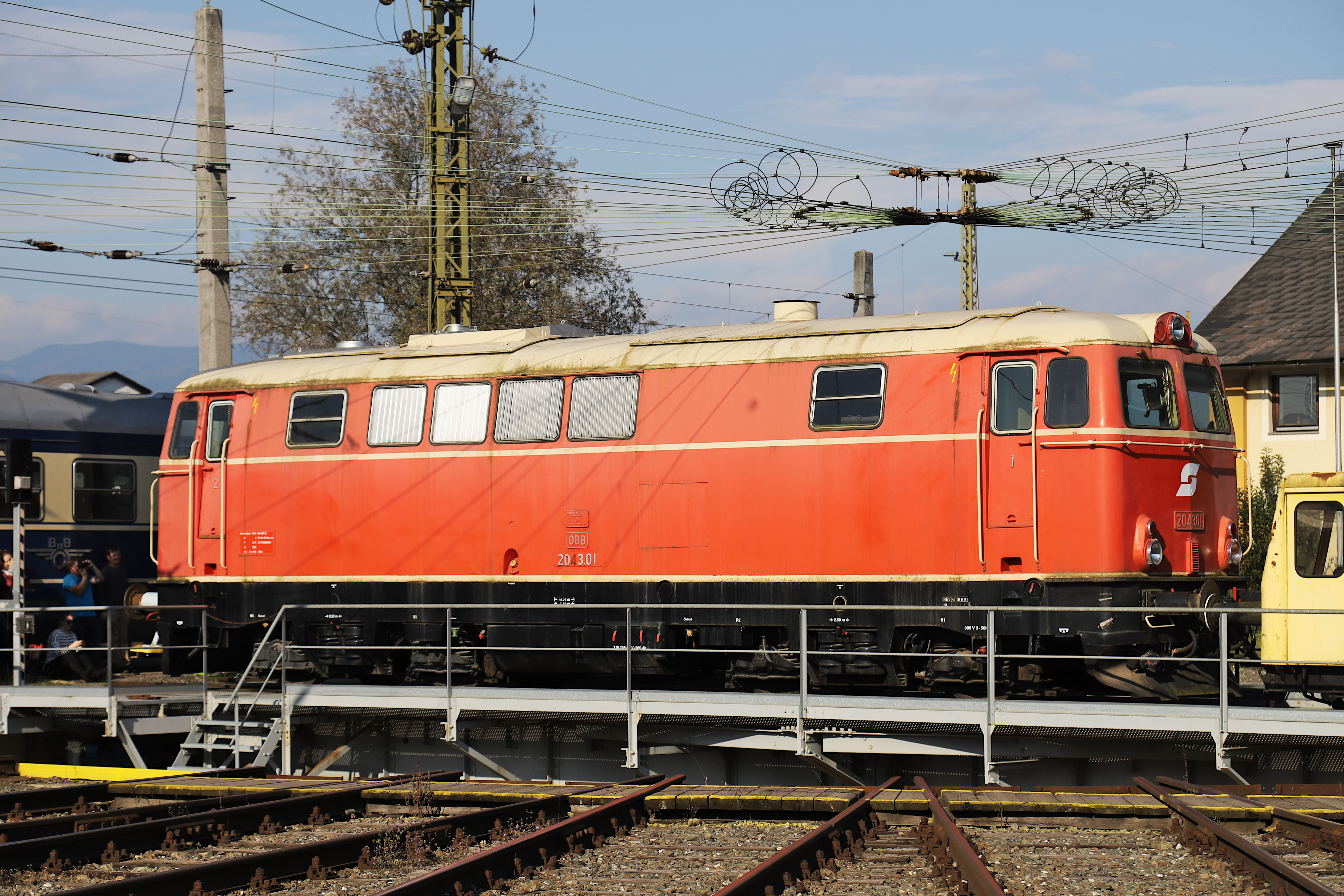 ÖBB 2043.01 on Knittelfeld turntable. This prototype engine was restored as a non-working showpiece, representing two historic color schemes. Here the blood-orange side with frames in black and roof in ivory is shown.